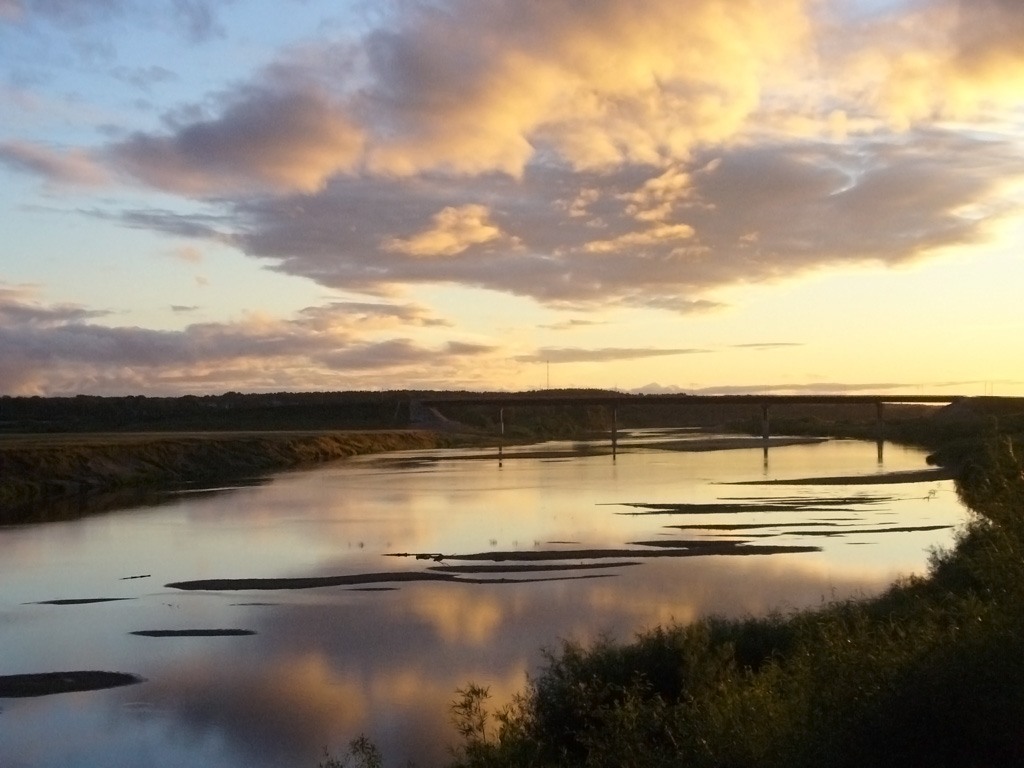 River Unzha near Kologriv, Kostromskaya Oblast